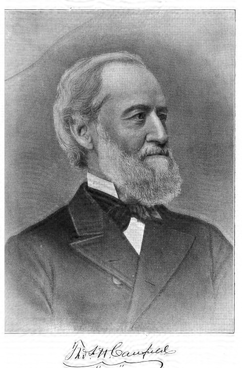 Thomas H. Canfield (1822-1897) was a founder of the Rutland and Washington Railroad (later a part of the Delaware and Hudson Railway), and a director of the Northern Pacific Railroad.